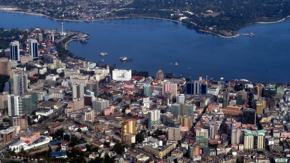 The city centre of Dar es Salaam around the harbour at a bird's view.